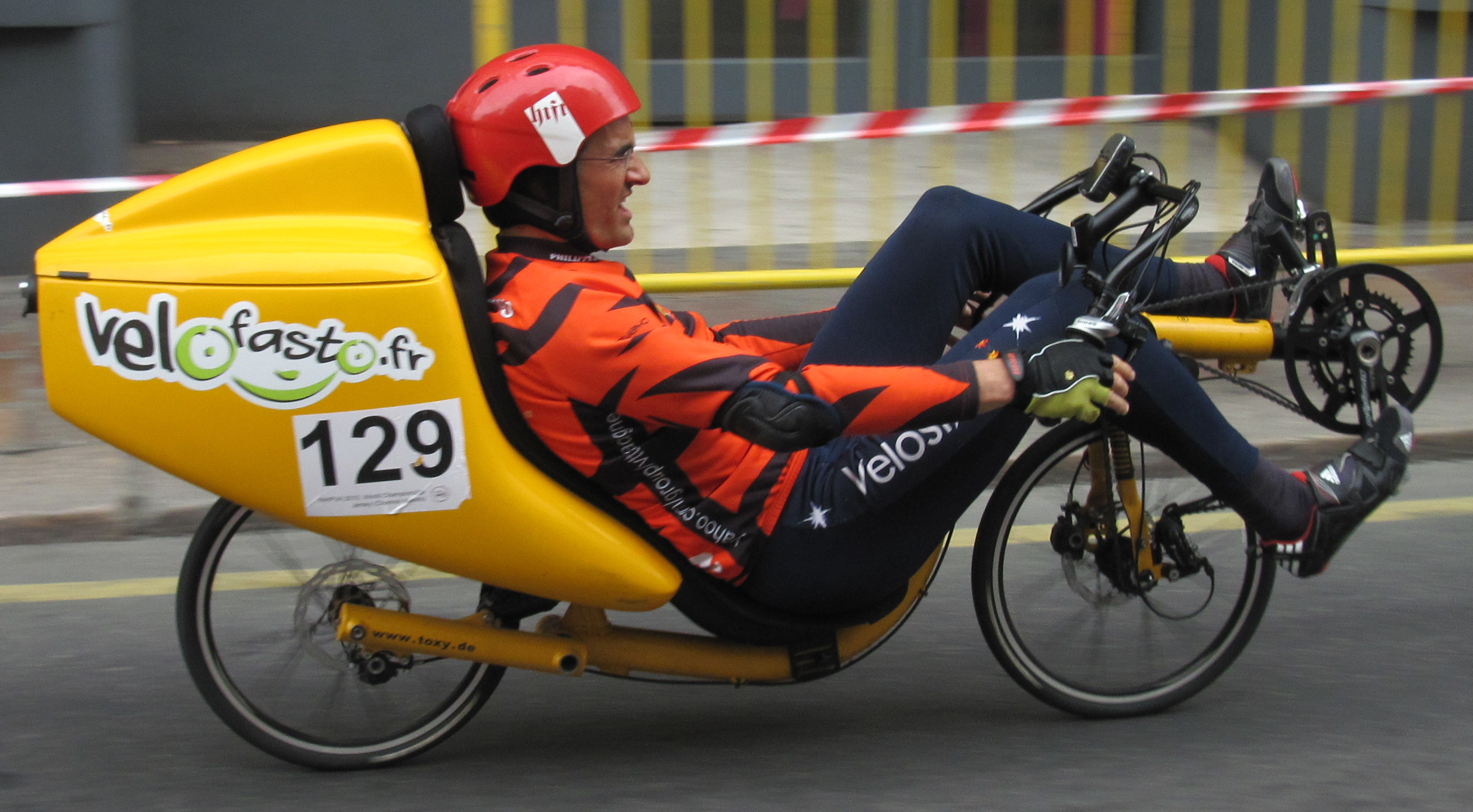 Jersey Town Criterium recumbent bicycle races, Saint Helier, Jersey - World Human Powered Vehicle Association 2010 World Championship